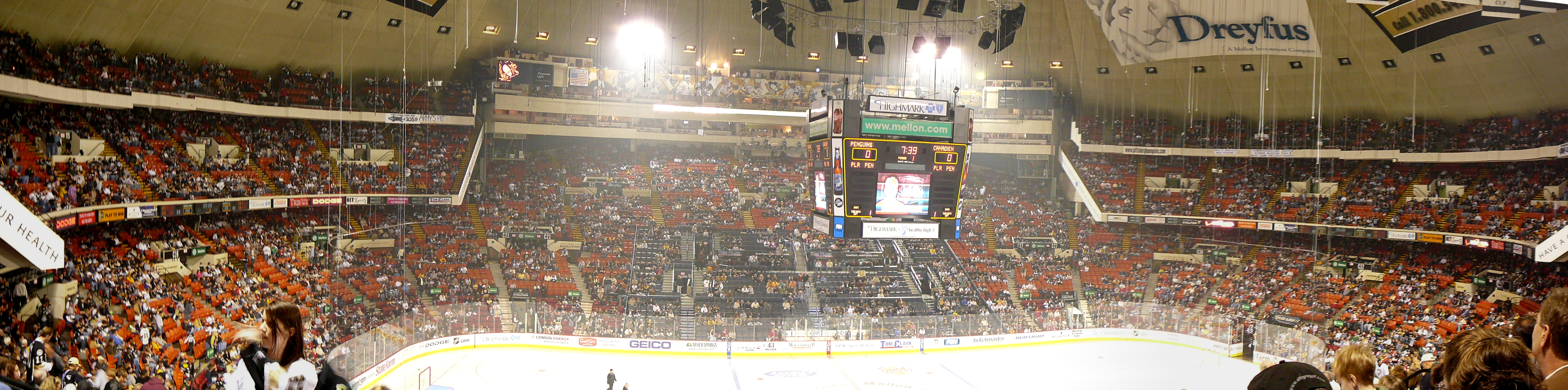 A panoramic view of the interior of Mellon Arena (Civic Arena)